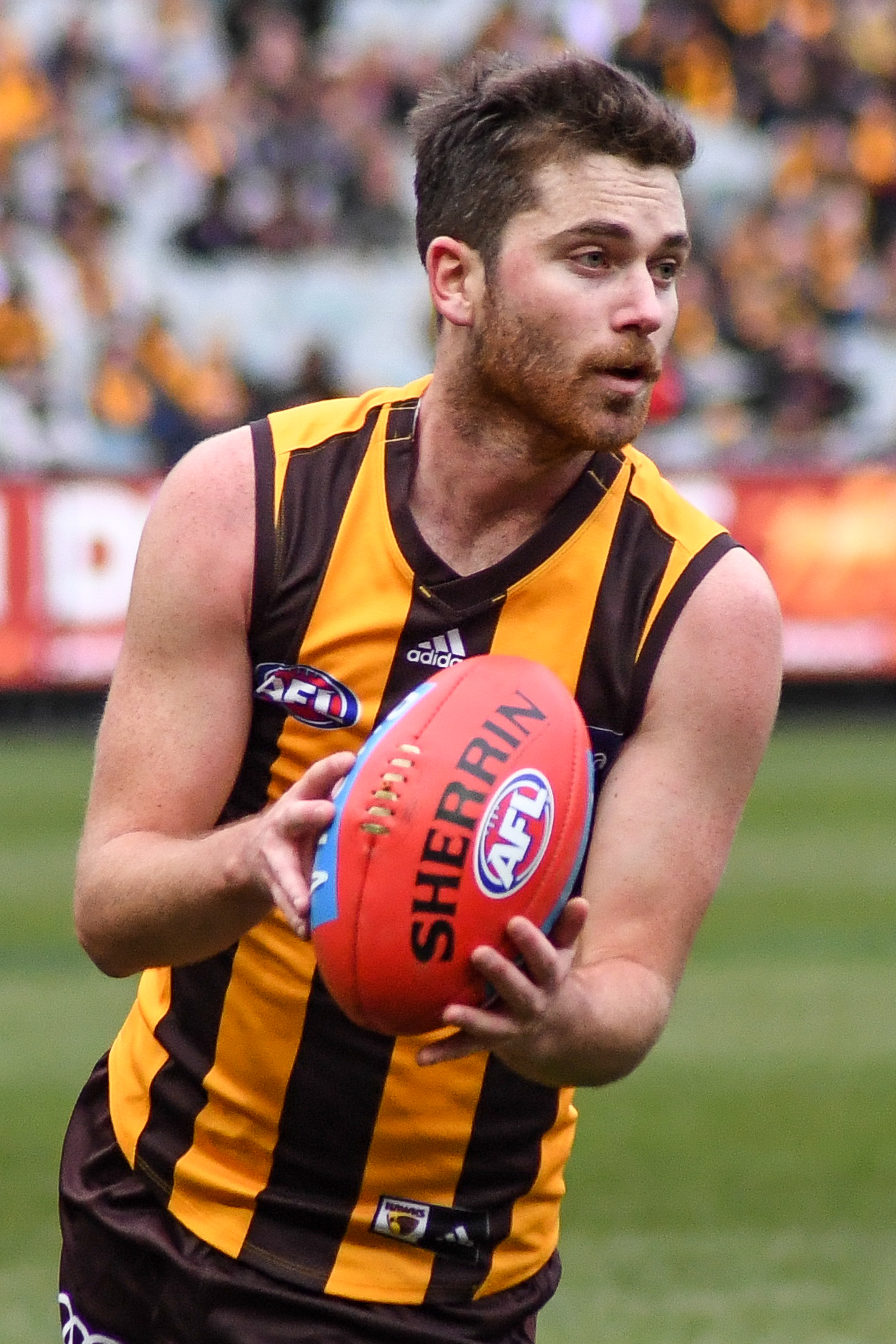 Teia Miles of Hawthorn during the 2018 AFL round 20 match between Hawthorn and Essendon at the Melbourne Cricket Ground on Saturday, 4 August 2018 in Melbourne, Victoria.